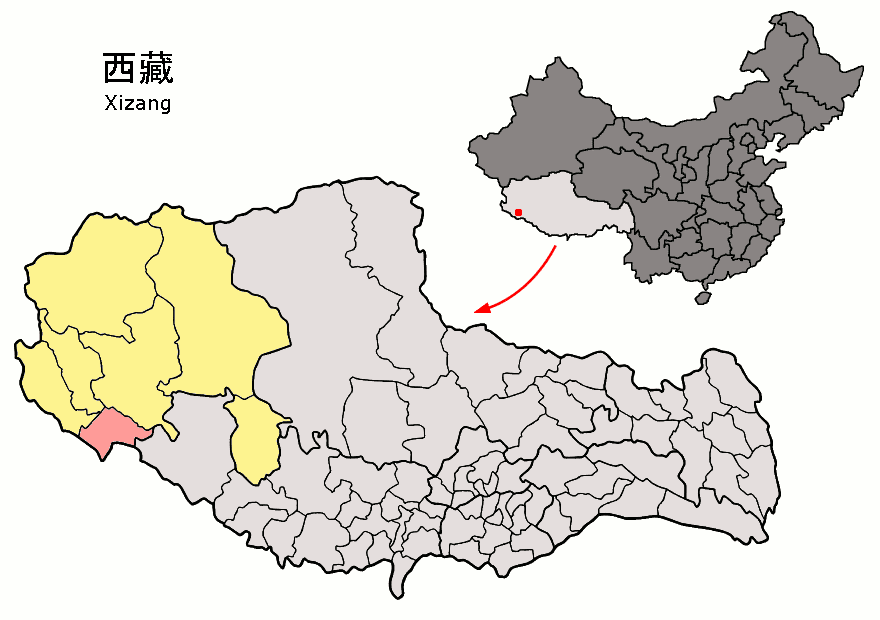 Location of Burang County (pink) and Ngari Prefecture (yellow) within Tibet (Xizang) autonomous region of China